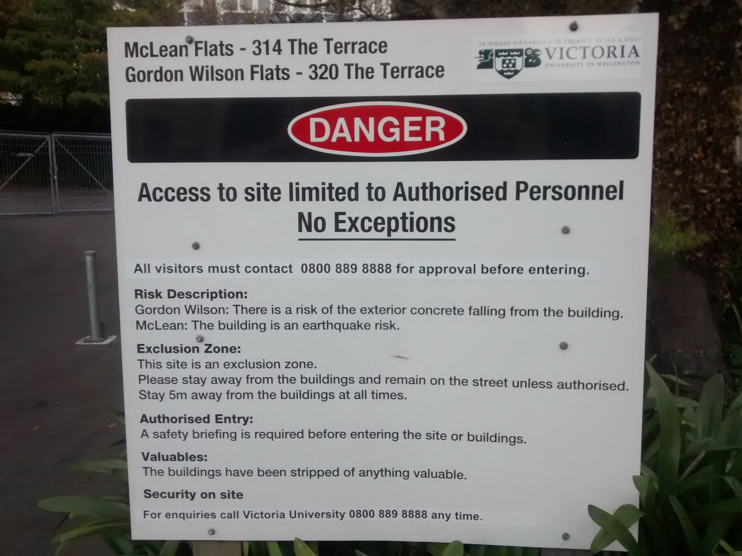 The warning sign outside the Gordon Wilson Flats (in Wellington, New Zealand) on the Terrace